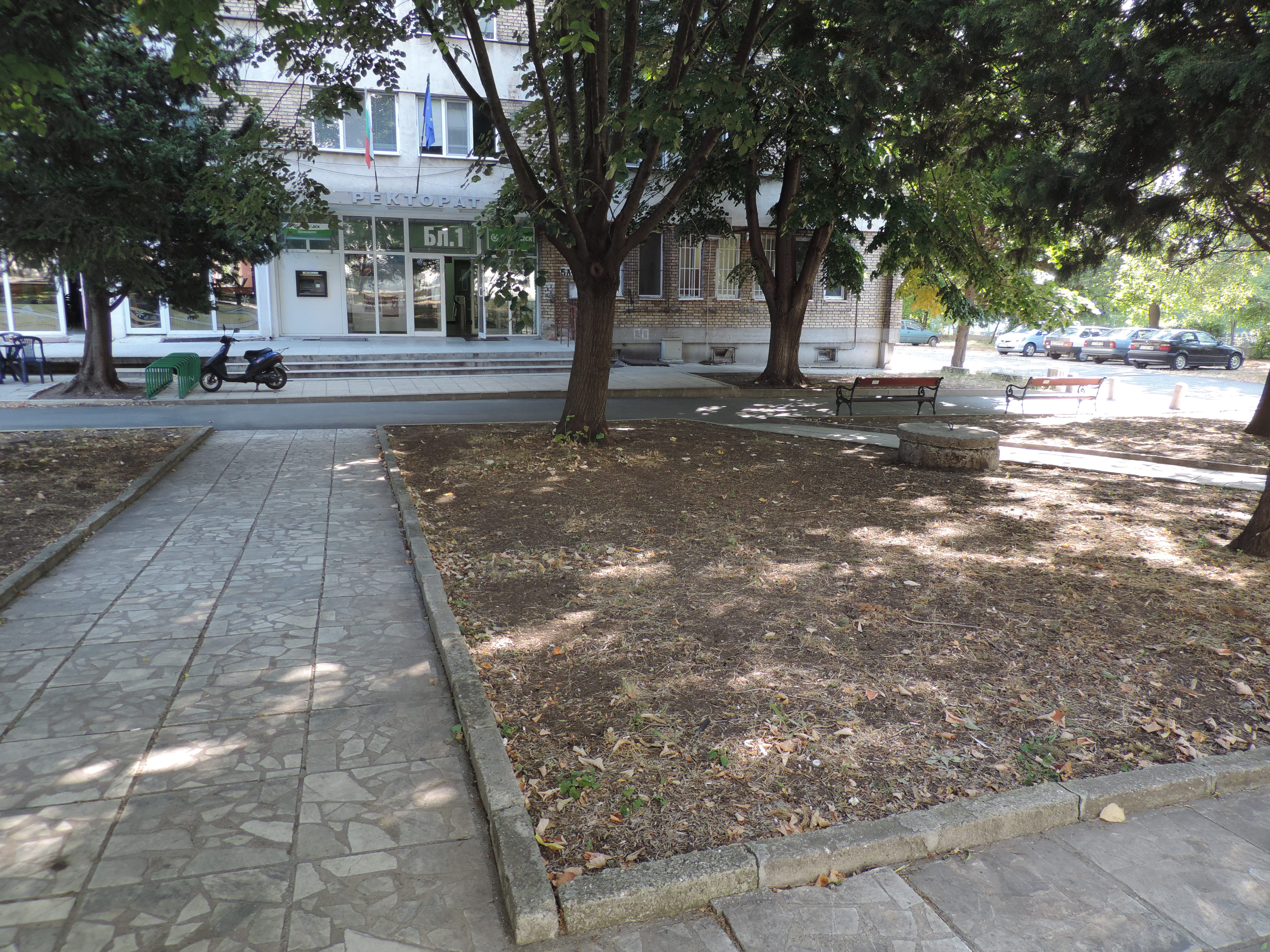 "Professor Asen Zlatarov" University, Burgas. Bulgaria